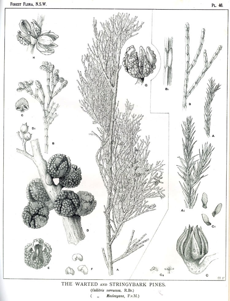 Plate 46 from "Forest Flora of New South Wales" A-G (left): Callitris verrucosa R.Br. A-C (right): Callitris macleayana F.Muell. H (top left): Callitris propinqua R.Br. = Callitris preissii Miq. (see Plate 47 for more of this species)